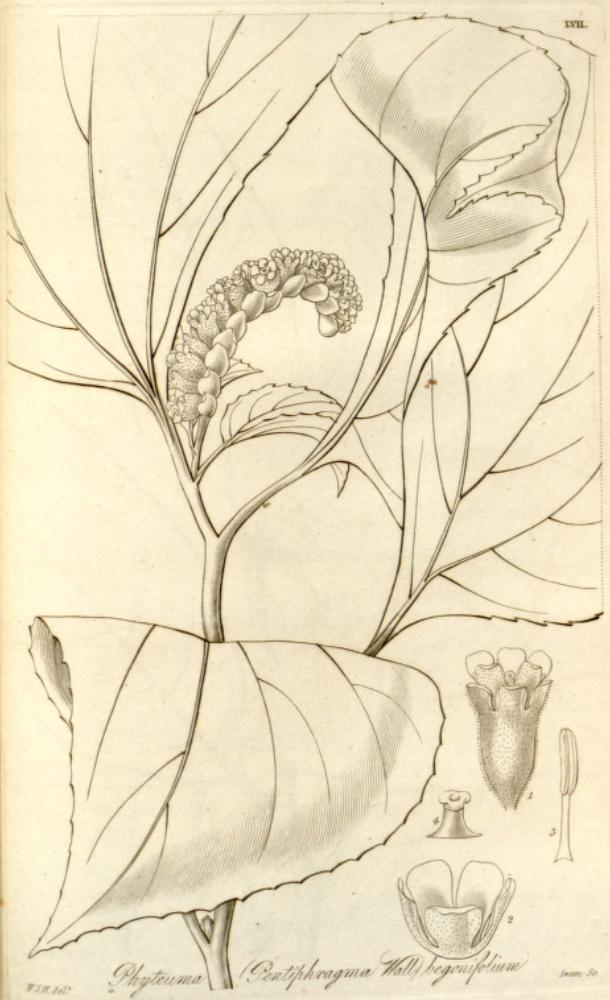 Illustration of Pentaphragma begoniaefolium (Orig. Phyteuma (Pentiphragma Wall.) begonifolium)